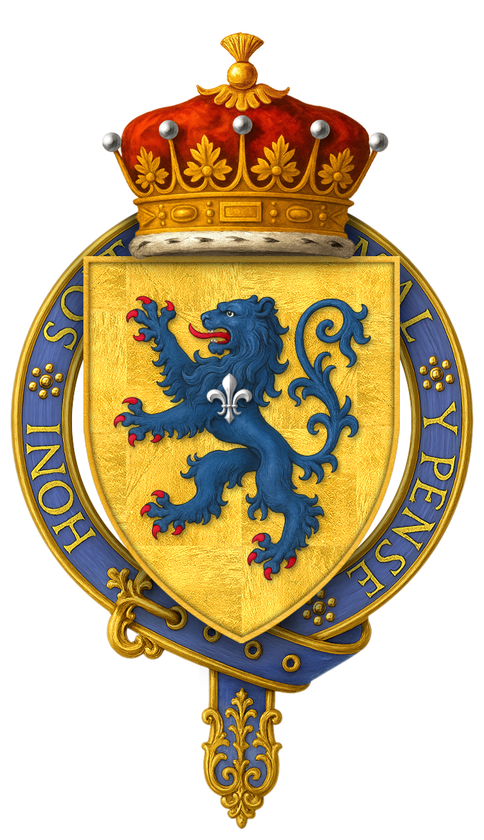 Coat of Arms of Sir Thomas Percy, 1st Earl of Worcester, KG “Sir Thomas Percy – Earl of Worcester… Arms: Or, a lion rampant Azure.” BELTZ, George Frederick, Memorials of the Order of the Garter from Its Foundation to the Present Time, London: William Pickering, 1841.